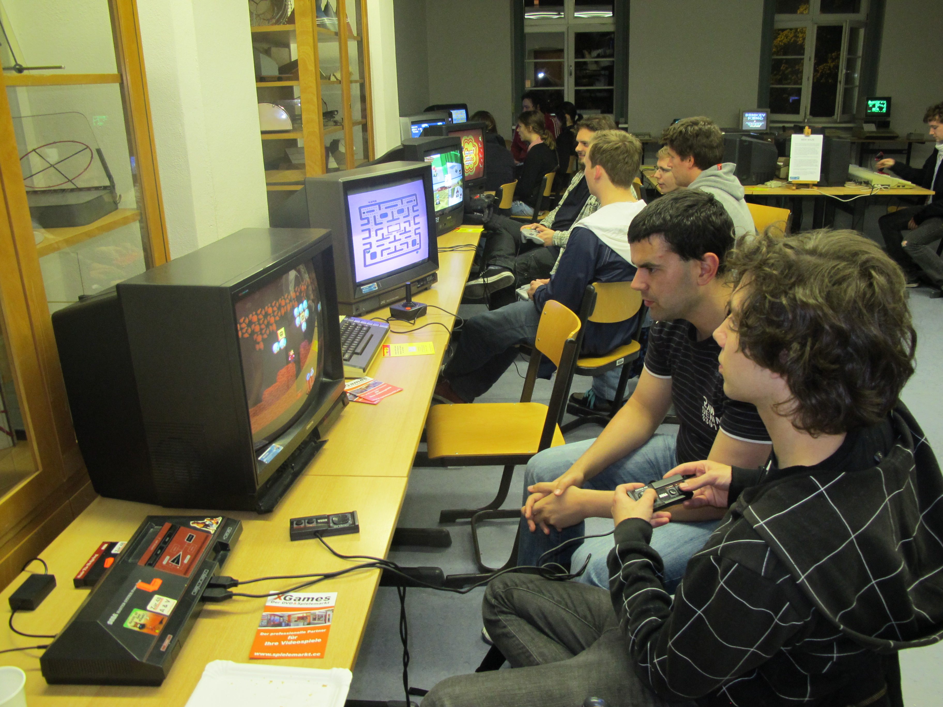 Lange Nacht der Computerspiele - HTWK Leipzig